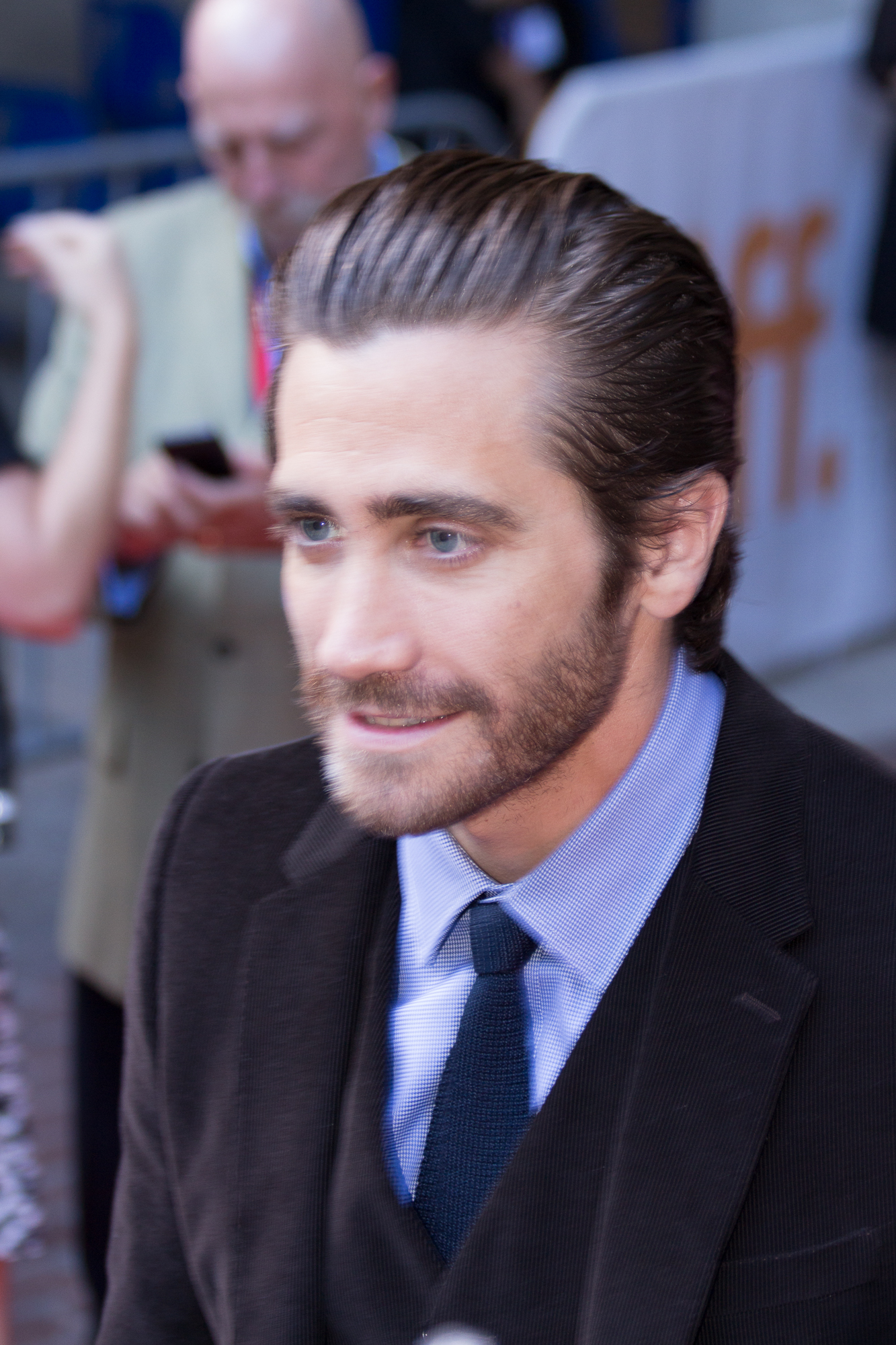 Actor Jake Gyllenhaal at the Toronto International Film Festival, September 2013